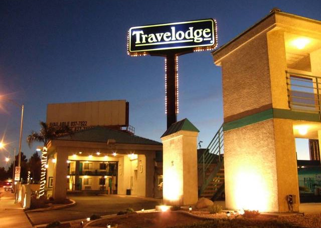 Travelodge Las Vegas Airport North